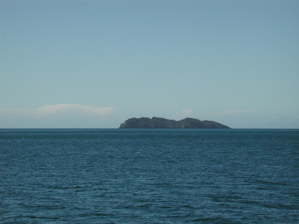 Titi Island north of Guards Bay and Marlborough Sounds